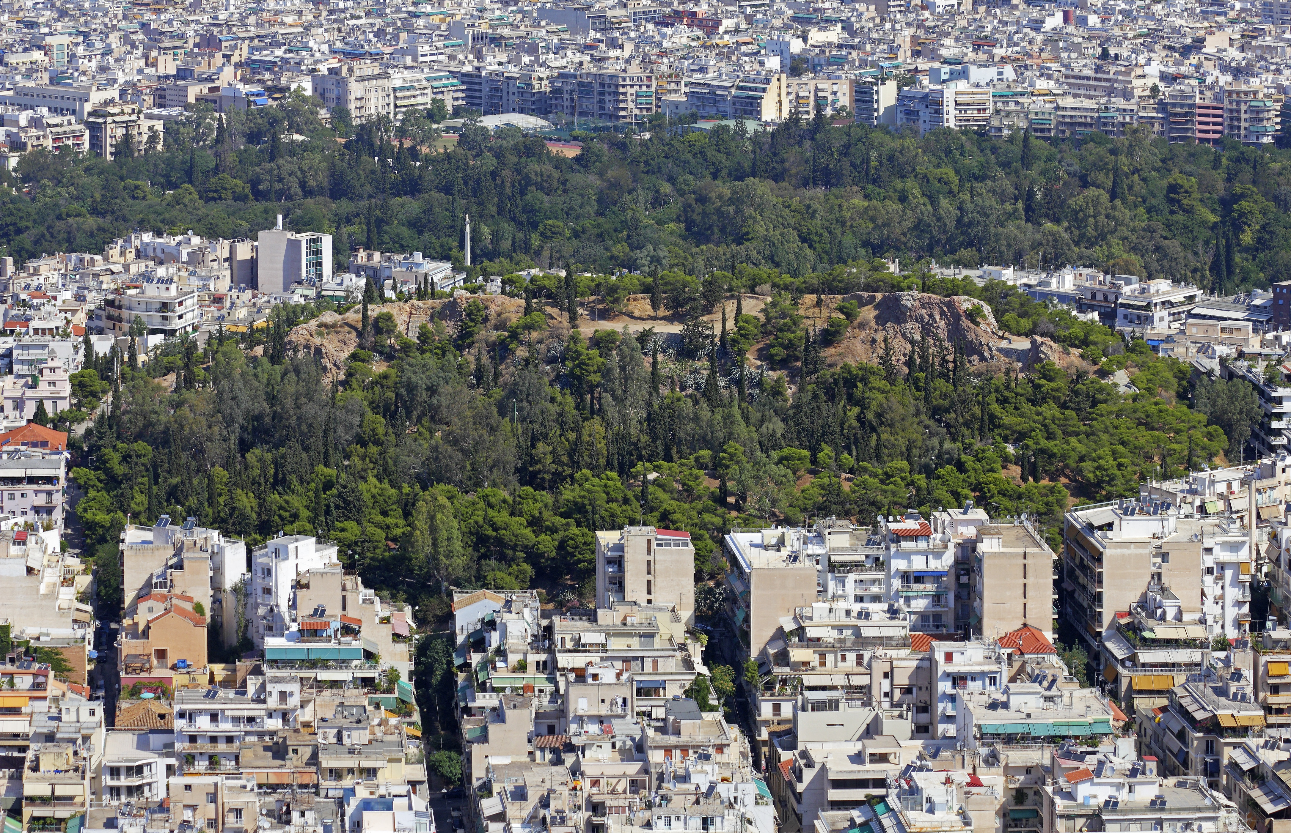 View from Lycabettus in Athens (Attica, Greece) – Strefi Hill